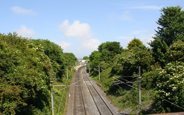 Harmonstown DART Station Looking towards Howth Junction, this picture showing the Harmonstown DART station was taken from the Brookwood Avenue overbridge.